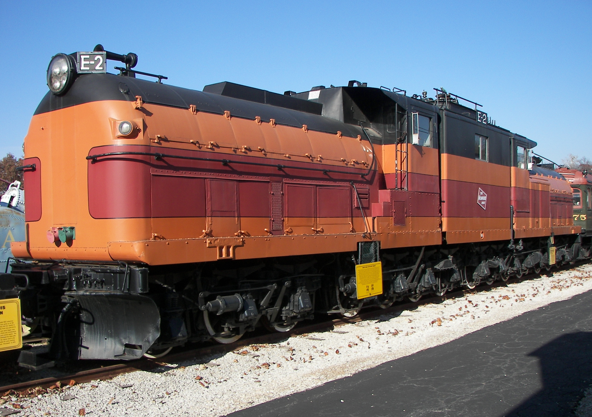 E-2 gearless bi-polar electric locomotive of the Milwaukee Road, currently located at the Museum of Transportation in St. Louis, Missouri